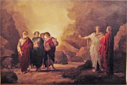 Virgil and Dante meeting Homer, Horace, Ovid and Lucan. Painting was shown in the Boston Athenaeum from 1850-1869. “Lo buon maestro cominciò a dire: «Mira colui con quella spada in mano, che vien dinanzi ai tre sì come sire: quelli è Omero poeta sovrano; l'altro è Orazio satiro che vene; Ovidio è 'l terzo, e l'ultimo Lucano. Però che ciascun meco si convene nel nome che sonò la voce sola, fannomi onore, e di ciò fanno bene».” —Inferno, Canto IV, vv. 85-93